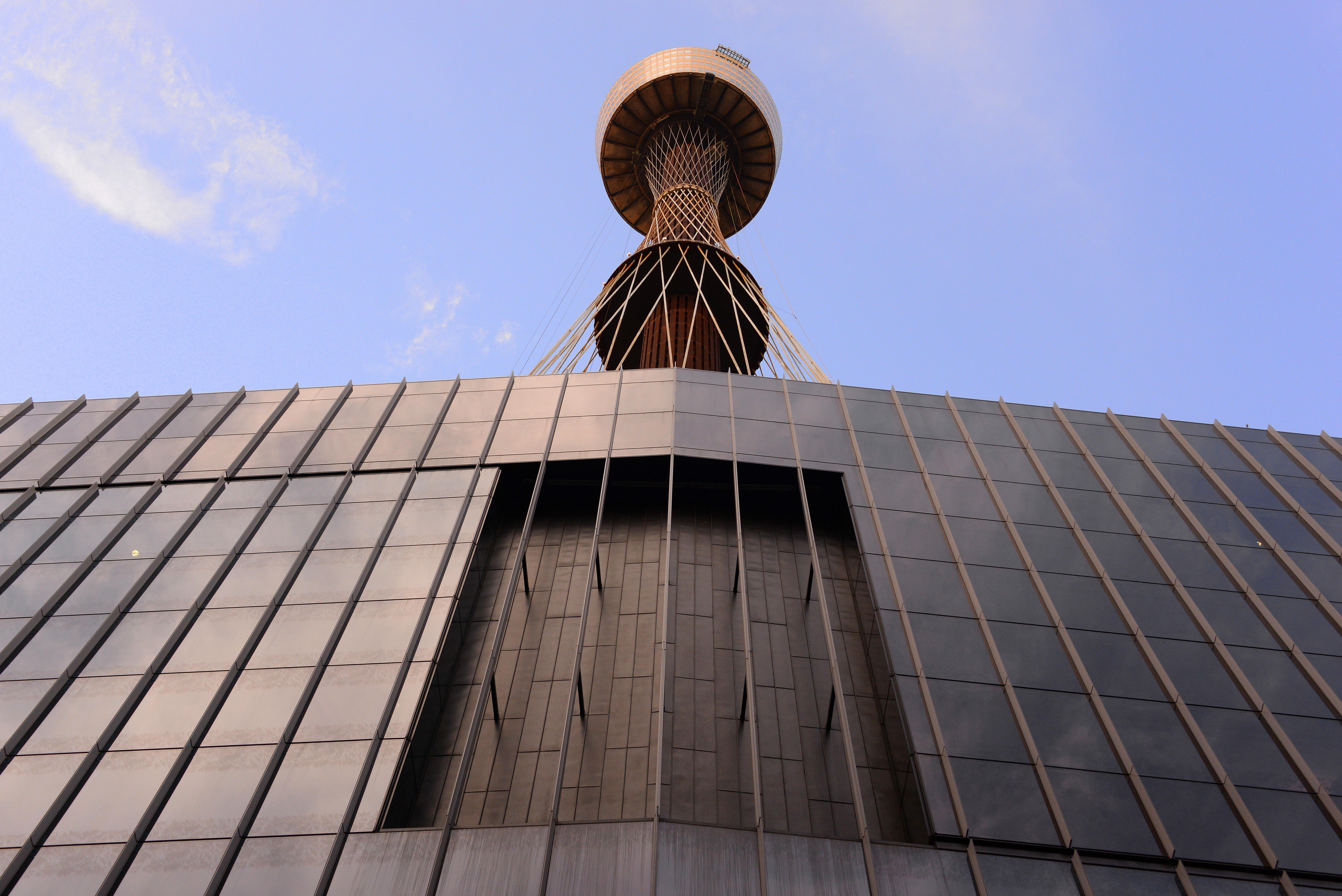 Sydney Tower, 100 Market Street, Sydney